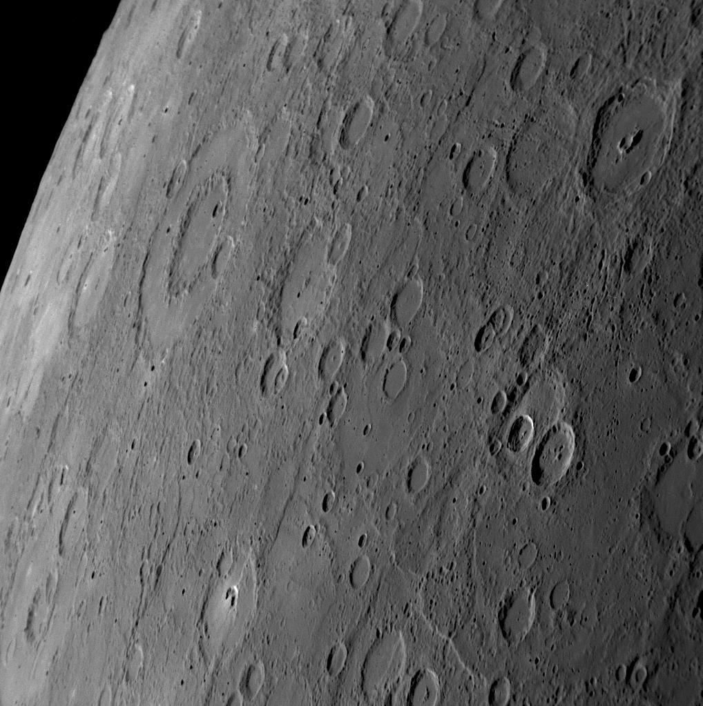 MESSENGER image of Mercury’s horizon about 56 minutes before the spacecraft’s closest pass by the planet. The peak-ring basin Dürer (named from Mariner 10 photos for the German artist Albrecht Dürer) is visible. The smaller crater Mickiewicz (named for the Polish poet Adam Mickiewicz) can also be seen, with a smaller central peak-ring structure in the middle of its crater floor. In the lower part of the image the 86 km diameter Glinka crater with a bright central pit can be seen.